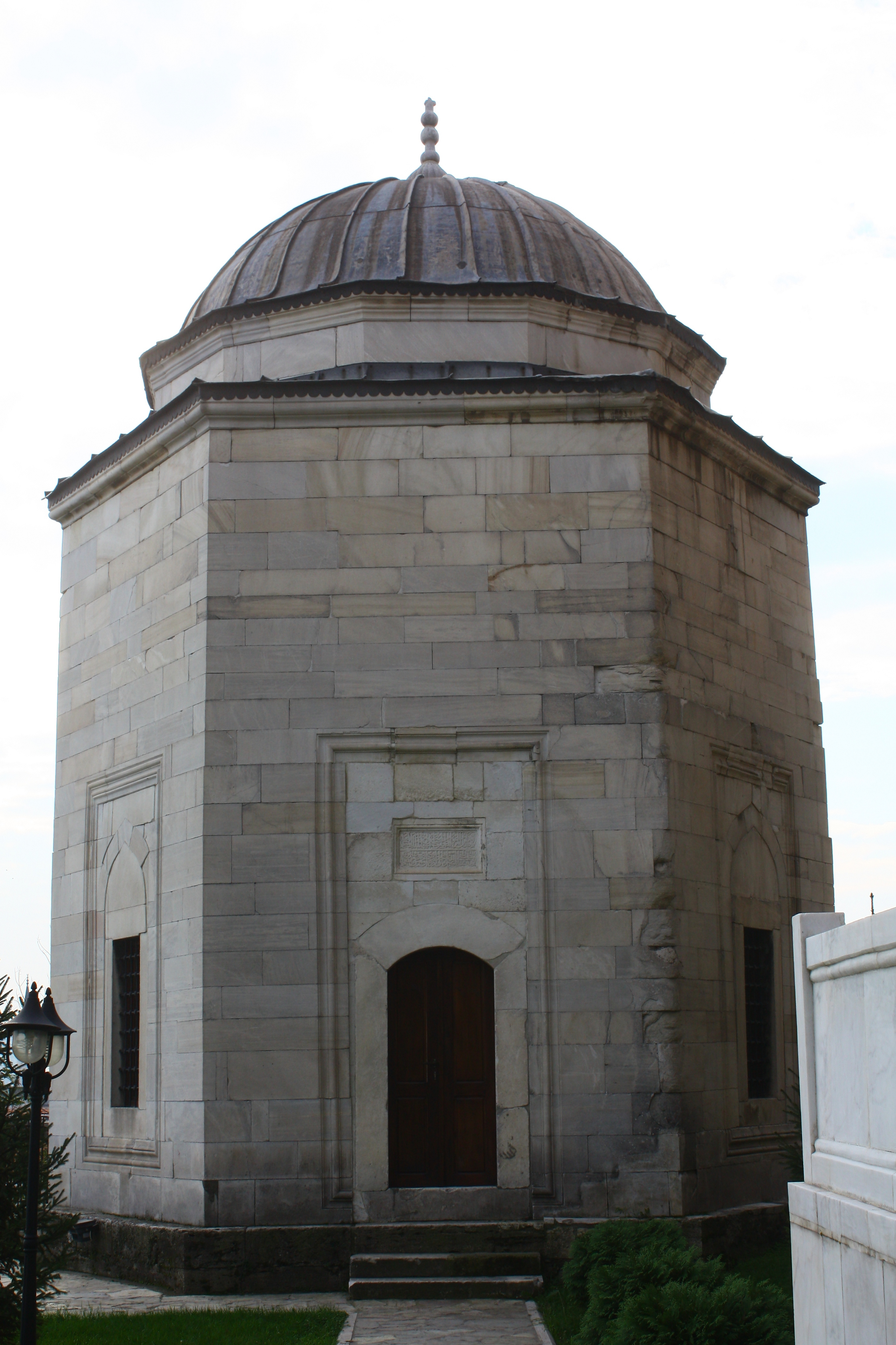 Mustafa Pasha Mosque in Macedonia Ова е фотографија на споменик на културата во Македонија со типски код: A02This is a a photo of a cultural monument in North Macedonia with type id: A02